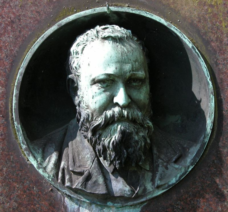 Brunswick, Germany: Hermann Heinrich Howaldt on Magni Cemetery.